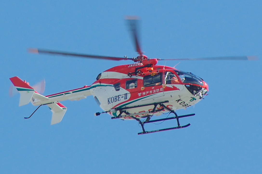 Photograph of Kobe City Fire Bureau's Kawasaki BK117C-2 (JA02KB, KOBE−II), flying over Port Island and Port of Kobe, Chuo-ku, Kobe, Hyogo Prefecture, Japan.